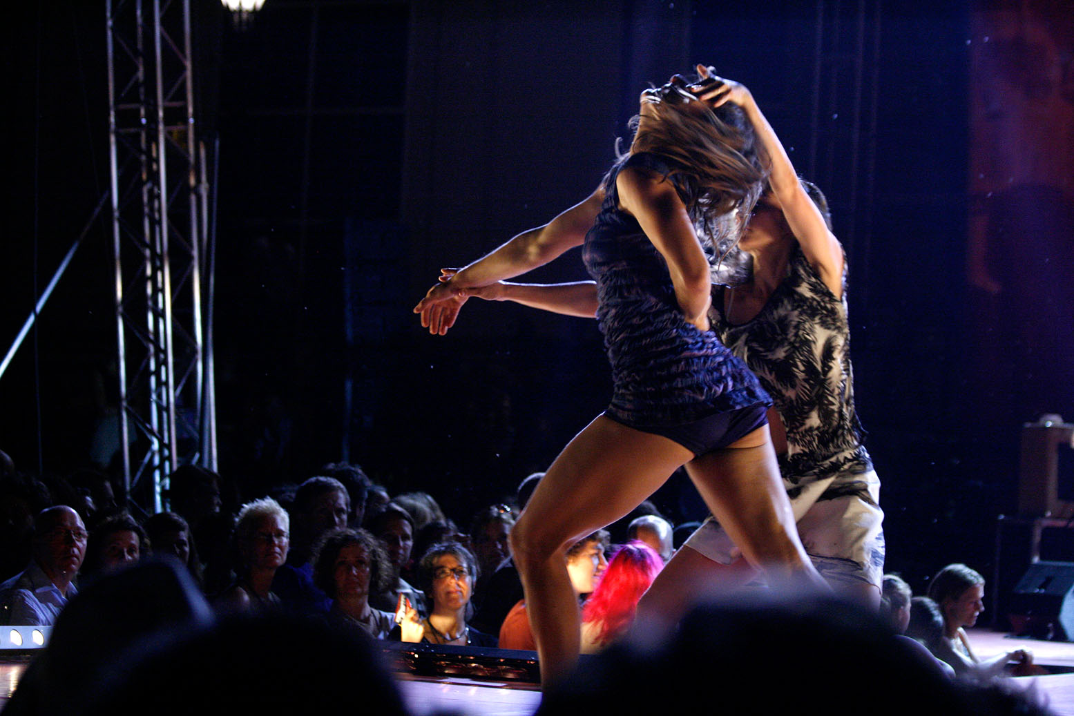 Wim Vandekeybus/Ultima Vez and Mauro Pawlowski presenting What's the Prediction? at the opening of the ImPulsTanz Vienna International Dance Festival (Museumsquartier, Vienna).